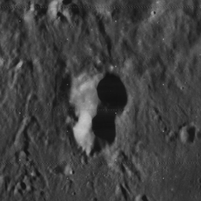 Fauth, on the moon.